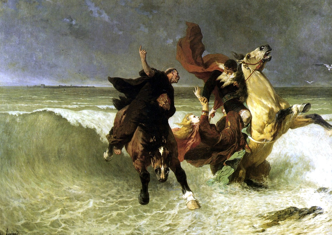 La Fuite de Roi Gradlon; his daughter Dahut was possessed by a half-fairy, half-woman who he had rejected and became the most evil woman in Brittany; stole keys to sluice gate and the seas invaded the city of Caer Ys; tried to rescue his daughter as he was unaware of her evil; St. Gwendole pushed Dahut into the sea and the waves calmed